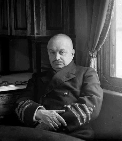 Dmitry Nikolayevich Verderevsky (1873-1947), Russian rear admiral, Minister of the Navy ounder the Russian Provisional Government in 1917. Photo of 1917.